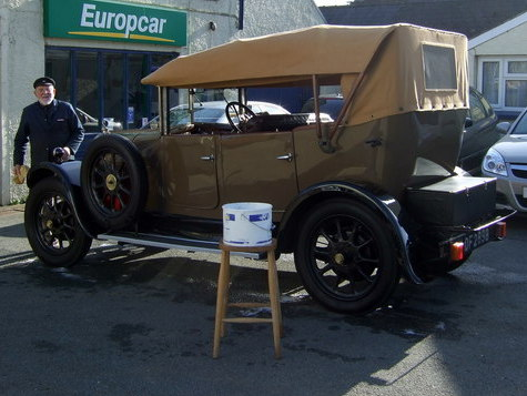 Car rental? This meticulously-restored 1926 Humber is NOT one of the hire cars available at the garage here.